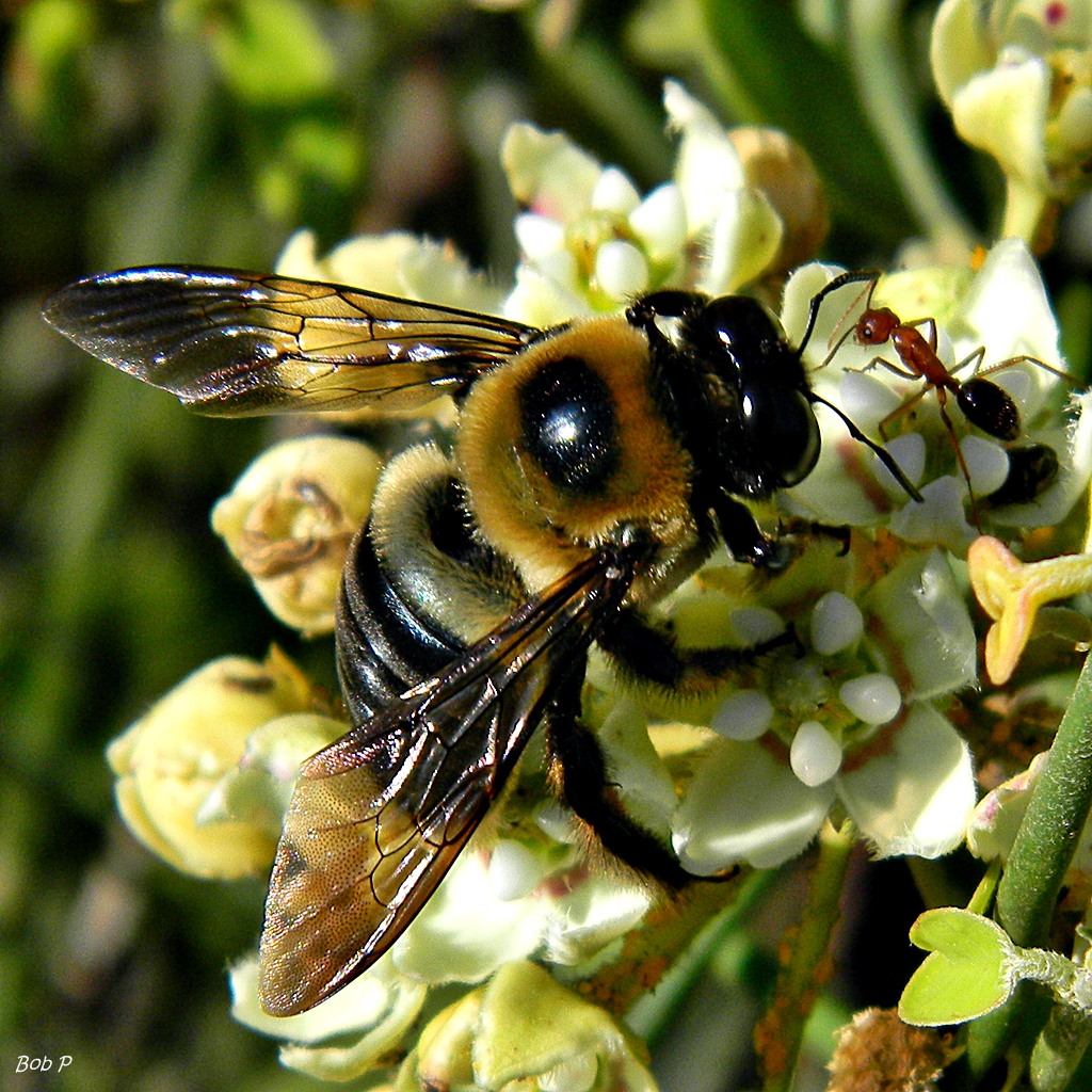 Carpenter Bee (Xylocopa virginica) shares a nectar drink with Carpenter Ant at Jupiter Ridge Natural Area. In my world, Ant rides upon Bee's back from flower to flower as they sing and discuss the day's events together. They are sipping from a white twinevine (Sarcostemma clausum).